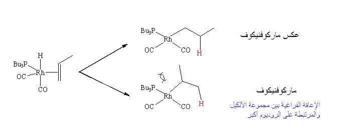 Formation of Rhodium allyl